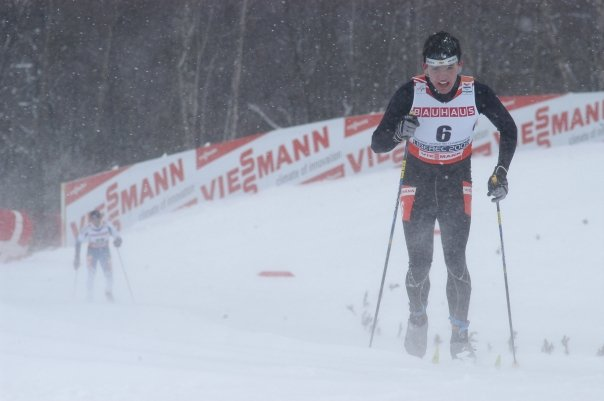 Venezuelan skier César Baena competing and training in the Czech Republic.